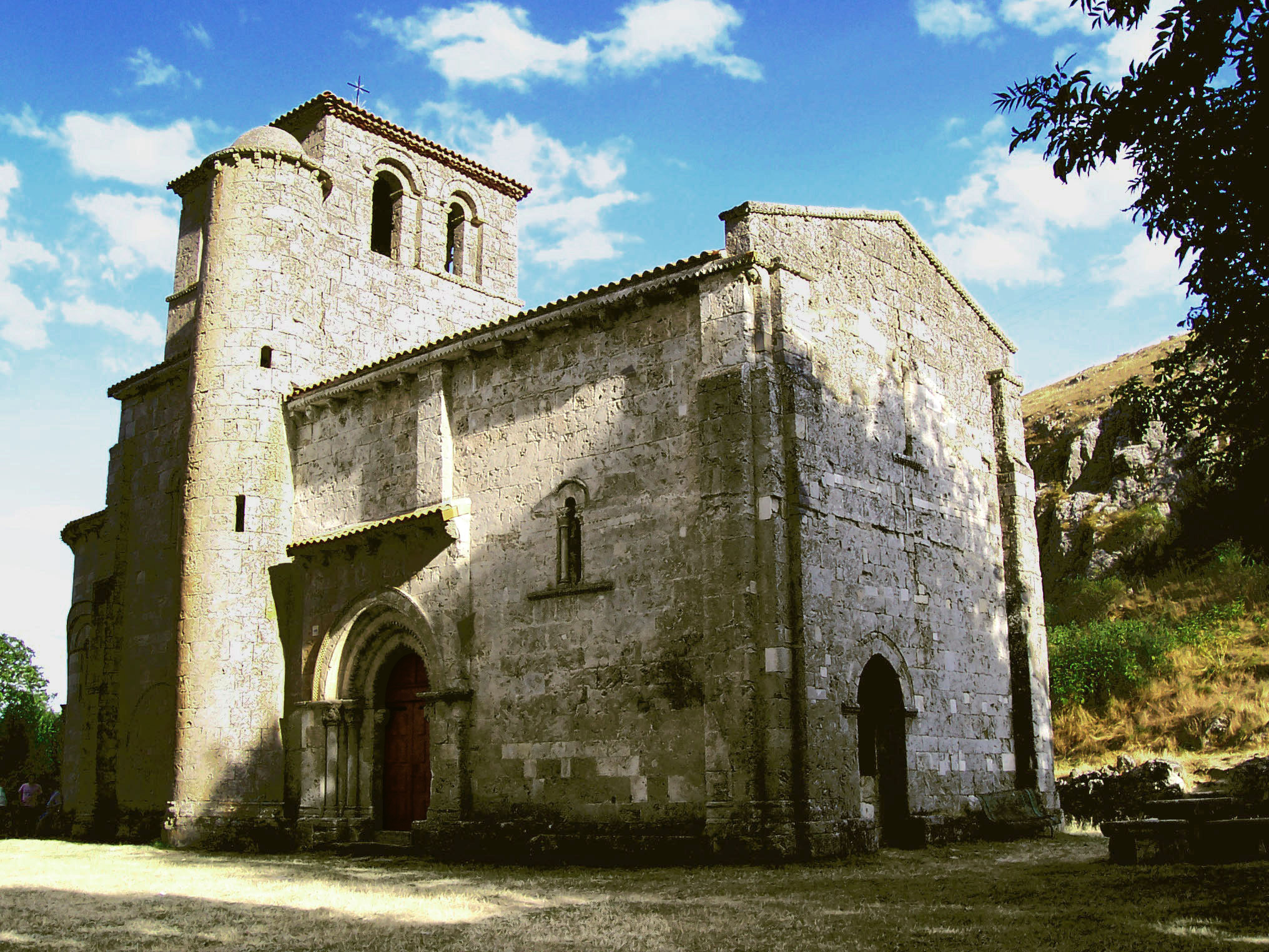 Romanic basilica of Our Lady of the Valley, XII century (Monasterio de Rodilla, Spain)